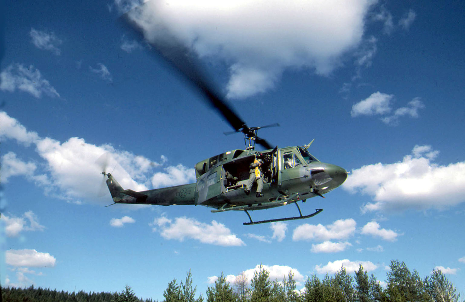 A four-member UH-1N Huey crew from Fairchild Air Force Base, Wash., rescued a stranded hiker Dec. 4 after an avalanche killed two others hit in the Snoqualmie Pass area in Washington. The crew consisted of Capt. Amanda Somerville, the pilot; Capt. Evan Roth, the co-pilot, Tech. Sgt. Devin Fisher, the flight engineer; and Staff Sgt. Jason Weiss, the independent duty medical technician. The Airmen are assigned to the 36th Rescue Flight. (U.S. Air Force photo/Staff Sgt. Andy Dunaway)